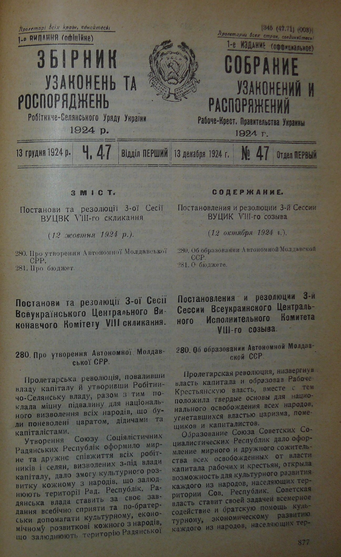 Official decree about establishing of the Moldavian ASSR in 1924.